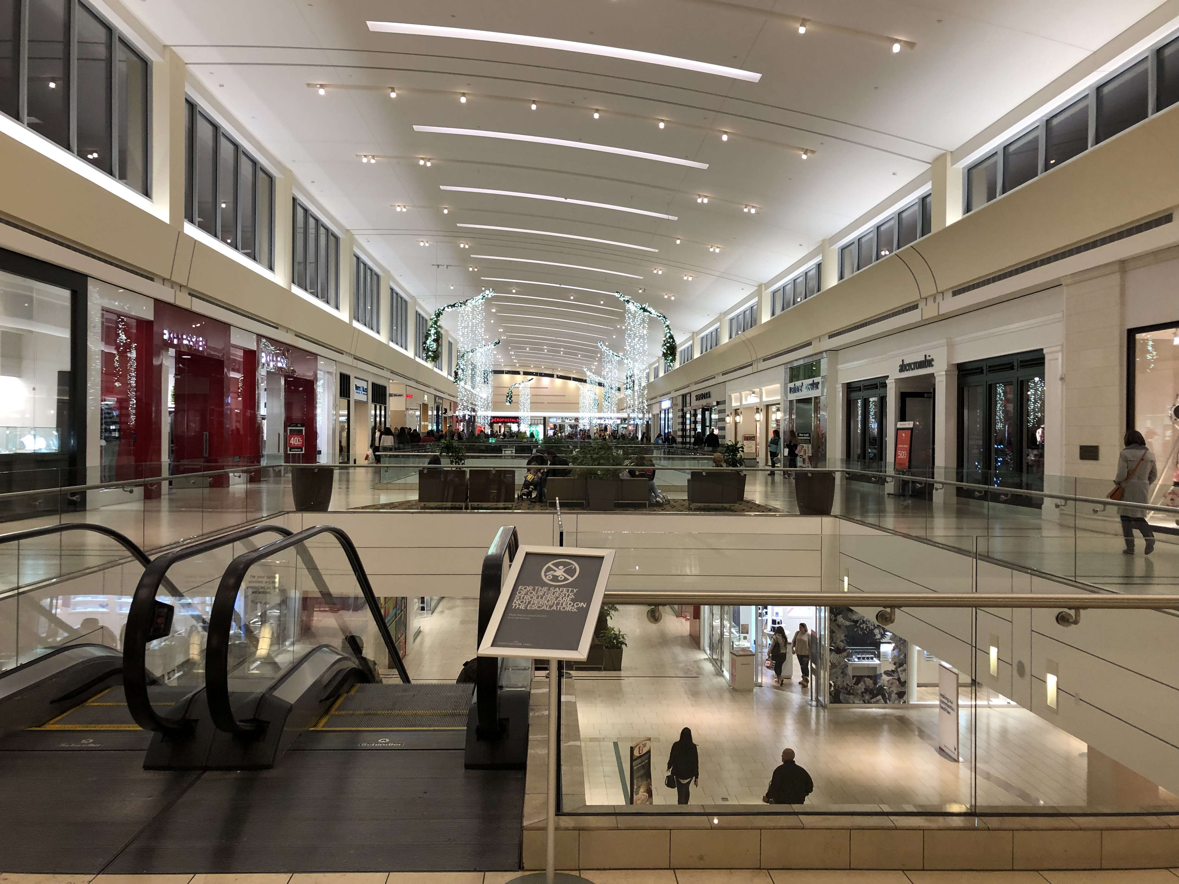 The interior of Northshore Mall in Peabody, Massachusetts, during the 2019 holiday season